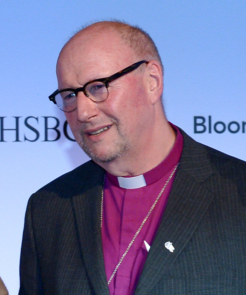 Horasis Global Meeting 2016, Liverpool, 13-14 June